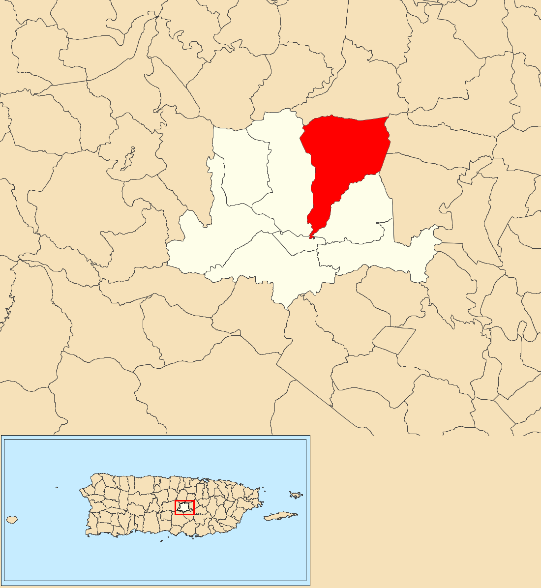 Quebradillas, Barranquitas, Puerto Rico locator map